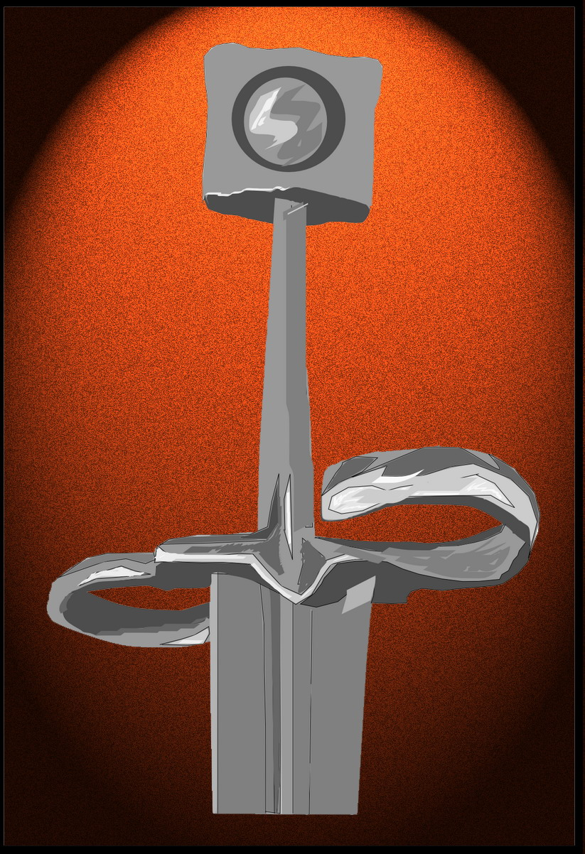 Slavic “S” sword XV c